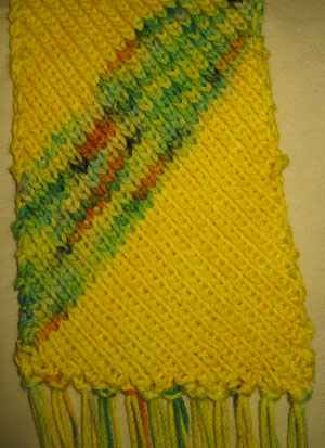 A hand-knit scarf incorporating bias knitting